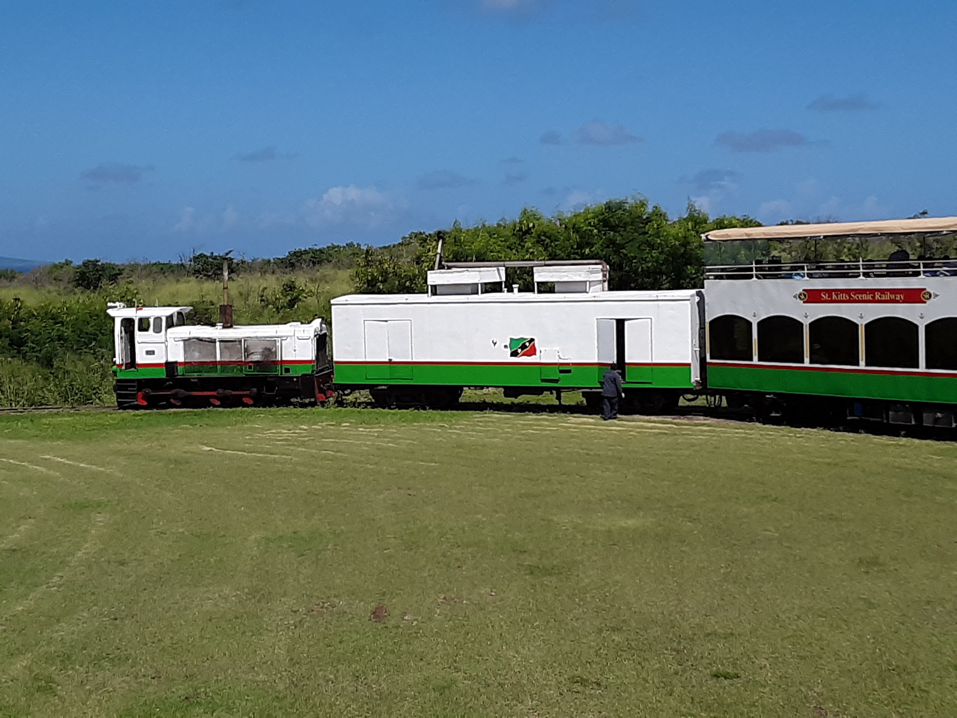 A FAUR PKP class Lyd2 locomotive, power car, and double-decker passenger car of the St. Kitts Scenic Railway.